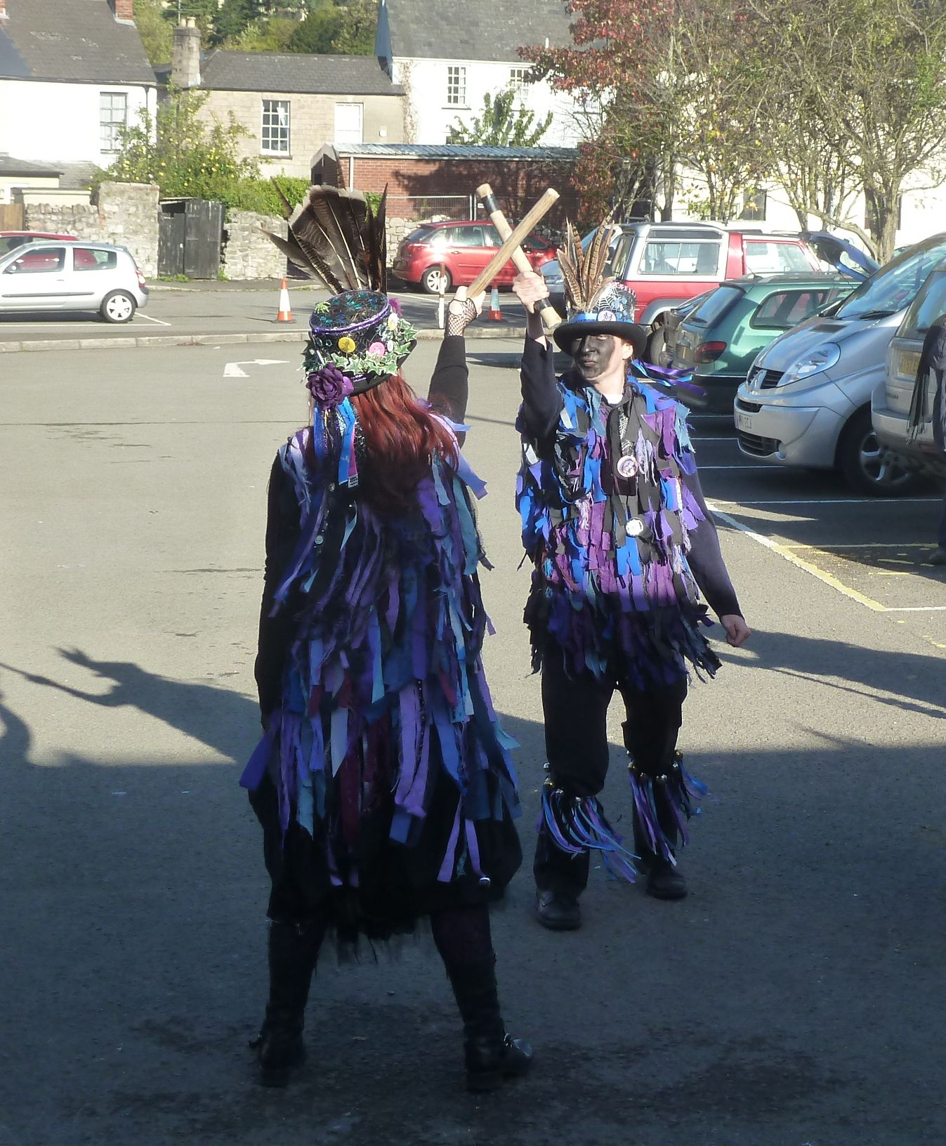 Widders settling their differences with sticks at the Chepstow Apple Day, November 2013